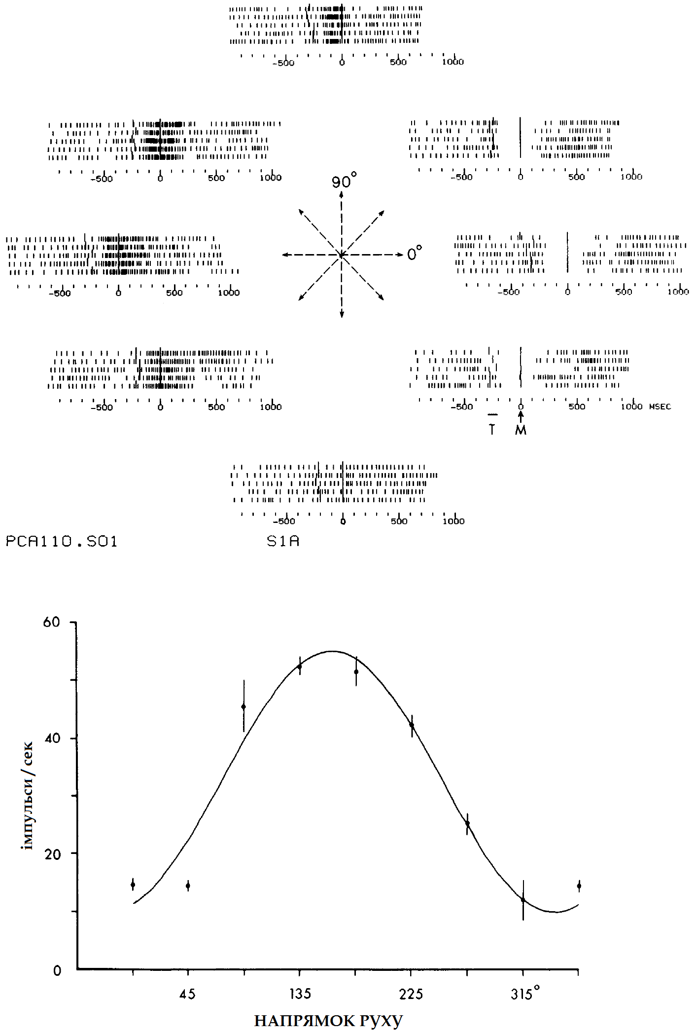 Top: Raster plots of the activity of an M1 neuorn during 5 movements in 8 different directions in a 2D plan, Bottom - the directional tuning curve for the same neuron, centered on its preferred movement direction, calculated from the mean discharge rate of neuron from the appearance of the target to the end of movement. Adapted after The representation of movement direction in the motor cortex: Single cell and population studies by AP Georgopoulos, JF Kalaska, MD Crutcher, R Caminiti, JT Massey. In Dynamic Aspects of Neocortical Function, eds Edelman, 1984